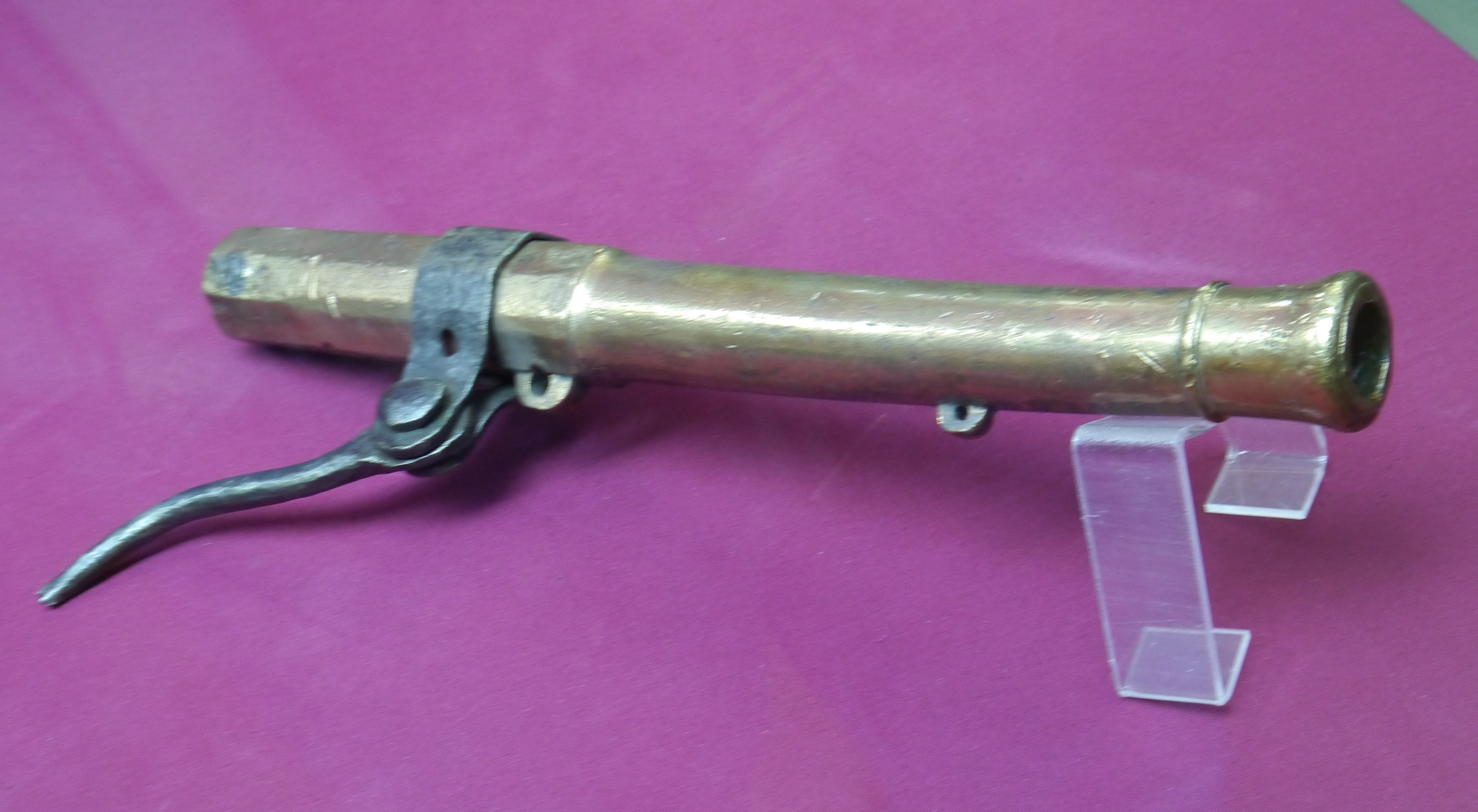 Hand cannon (sometimes also called arquebus) belonging to the collections of the Askerî Müse military museum (Istanbul, Turkey).